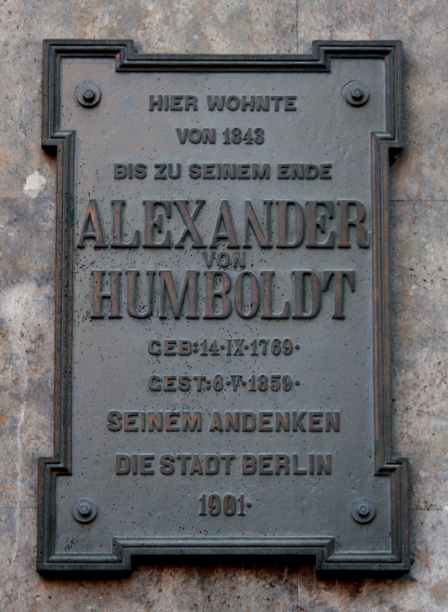 Plaque for Alexander von Humboldt (a German naturalist and explorer), at the front of his last residential building in Berlin, Oranienburger Strasse 67.